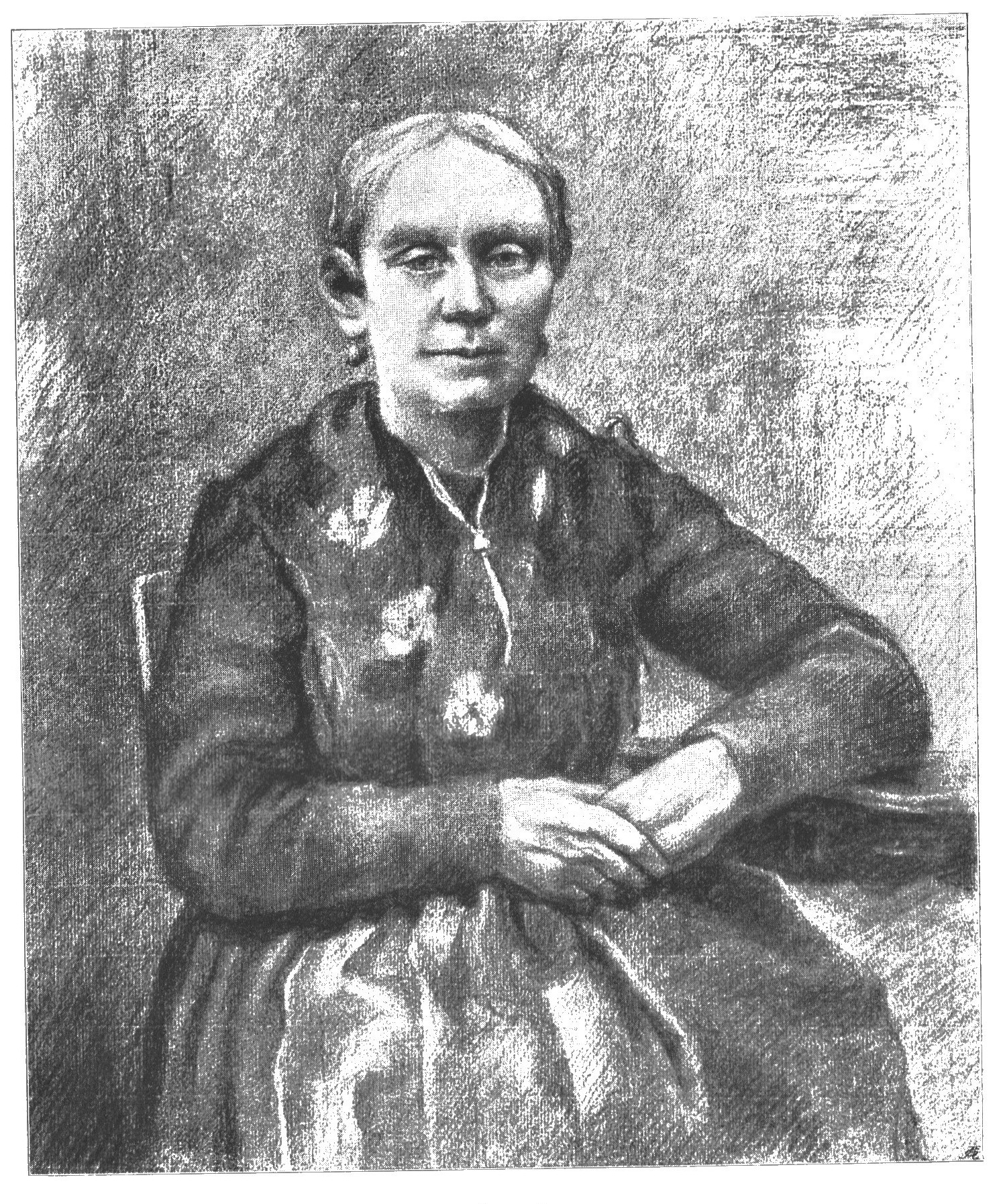 Mother of pope Pius X Margherita Sanson (1813 – 1894)